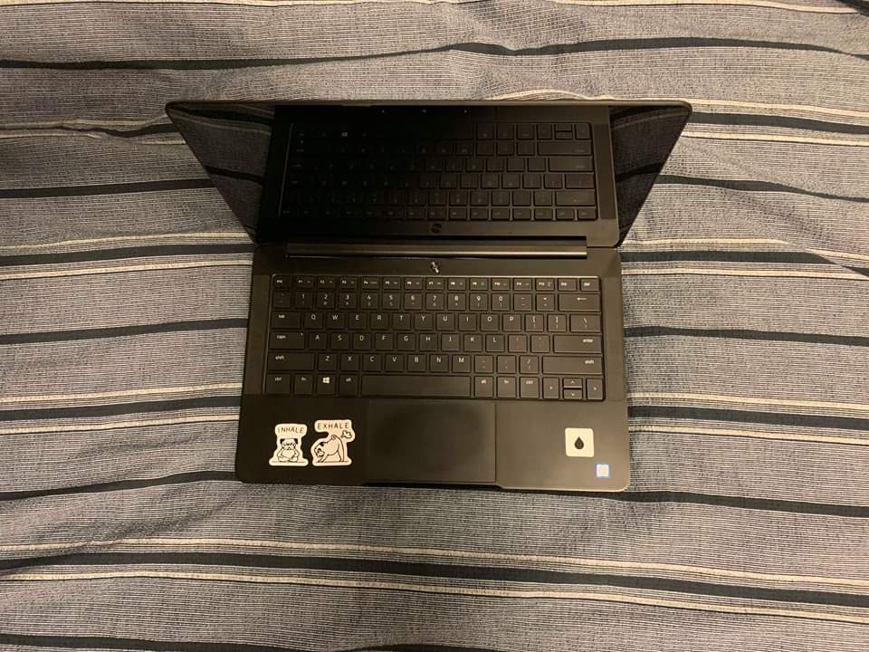 Razer Blade Stealth Late 2017